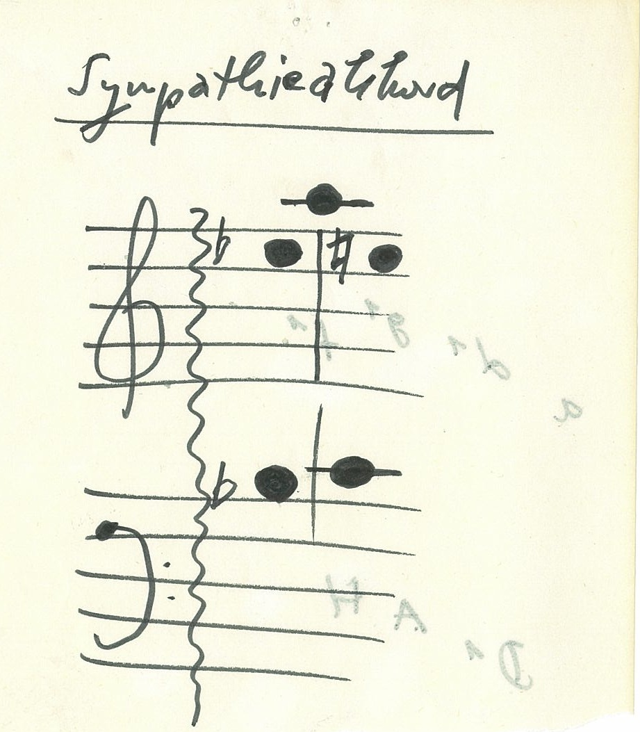 facsimile from the open German theater collection, Hamburg